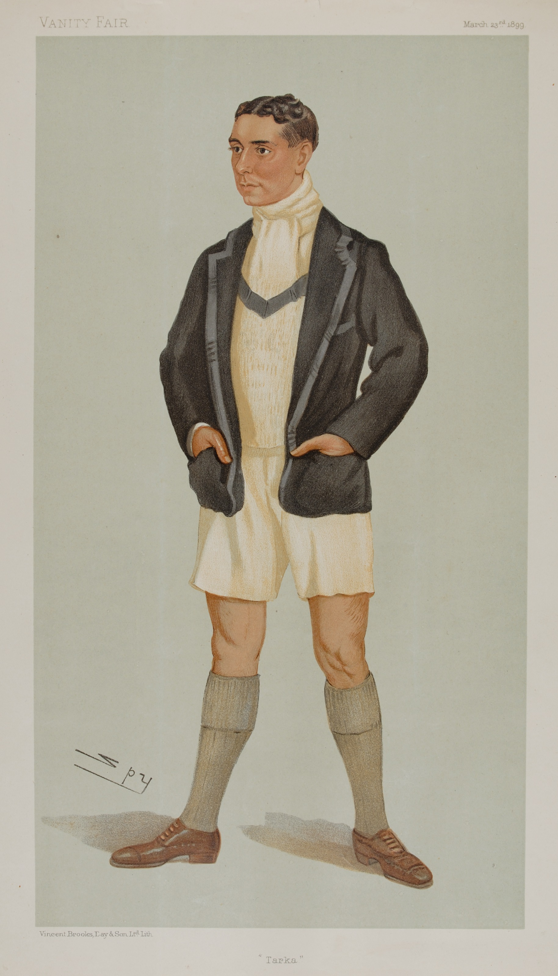 Men of the Day No. 742: Caricature of Mr Harcourt Gilbey Gold. Caption reads: "Tarka"